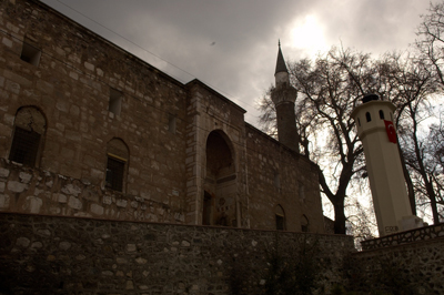 Great Mosque of Manisa, built in 1366 during the Saruhan period